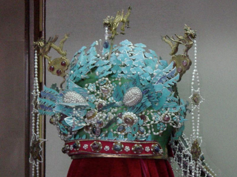 Chinese Imperial Queen's Headdress (Ming Dynasty) Blue tian-tsui leaves and birds, gold dragons, pearls, polished semi-precious stones. Located at the Ming tombs museum complex. Image slightly edited to remove cabinet reflections, processed to reduce storage requirements. Picture taken late September 2002 by Leonard G. Photographer's note: of all the objects seen during a two week tour of China, this was to me the most beautiful. Leonard G. 01:34, 4 Jul 2004 (UTC)